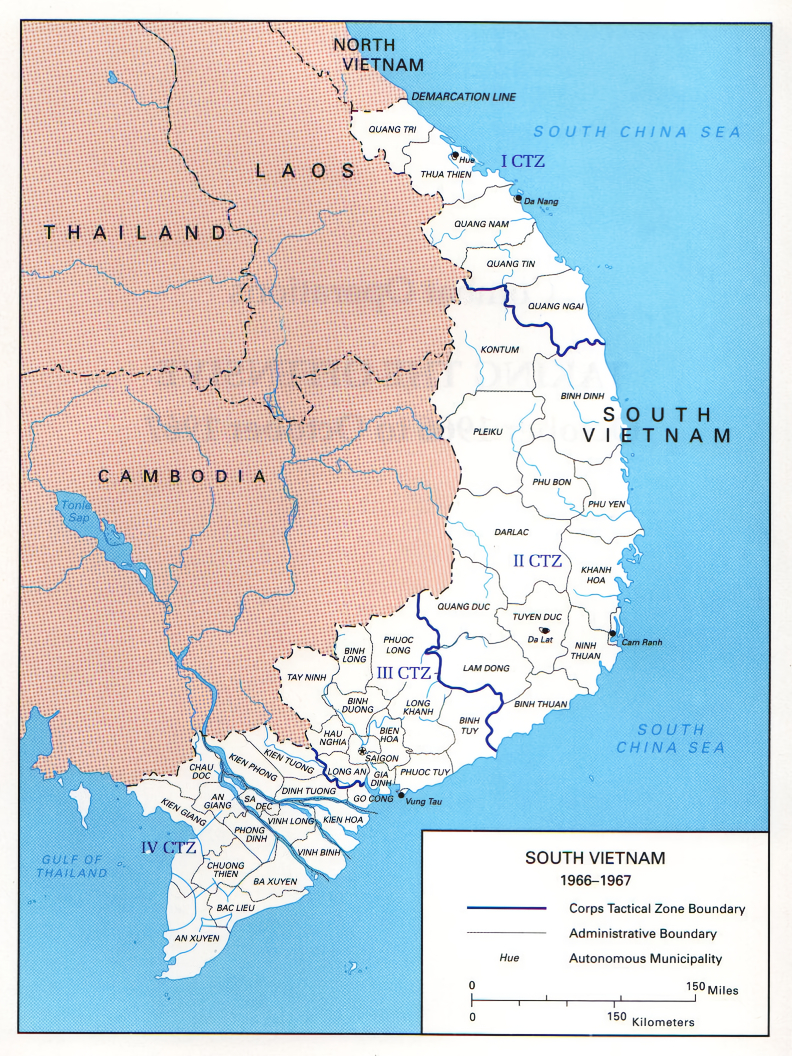 Military Regions in South Vietnam, 1966-67